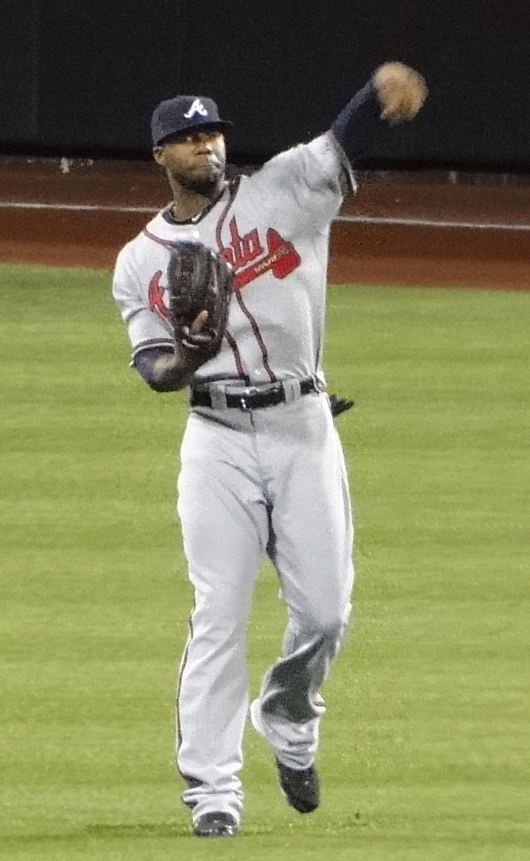 Jason Heyward